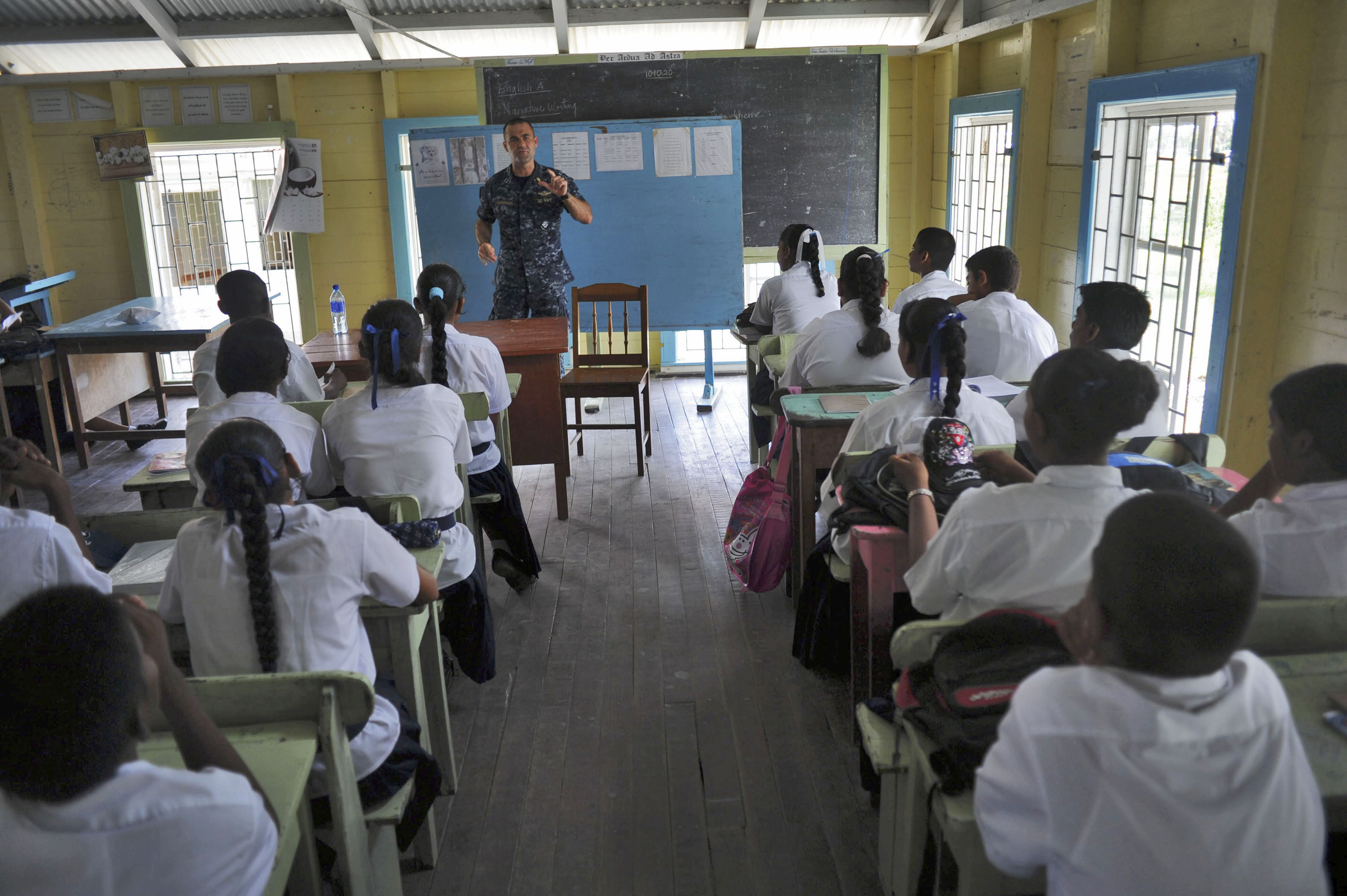 ROSE HALL, Guyana (Oct. 21, 2010) Lt. Mike Kavanaugh speaks to school children about mosquitoes that carry infectious disease in Guyana during a continuing Promise 2010 community service event. The assigned medical and engineering staff embarked aboard Iwo Jima are working with partner nation to provide medical, dental, veterinary and engineering assistance in several countries. (U.S.Navy photo by Mass Communication Specialist 1st Class Christopher B. Stoltz/Released)